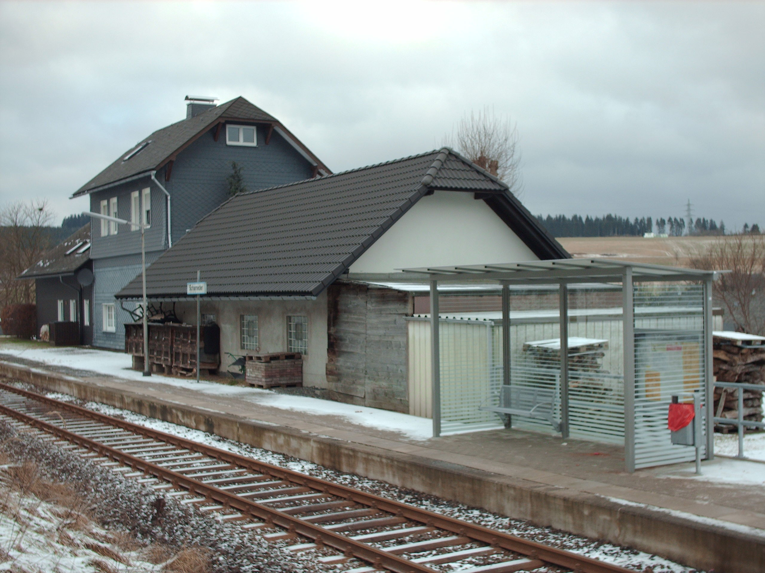 Schameder station, Erndtebrück, Germany check usage